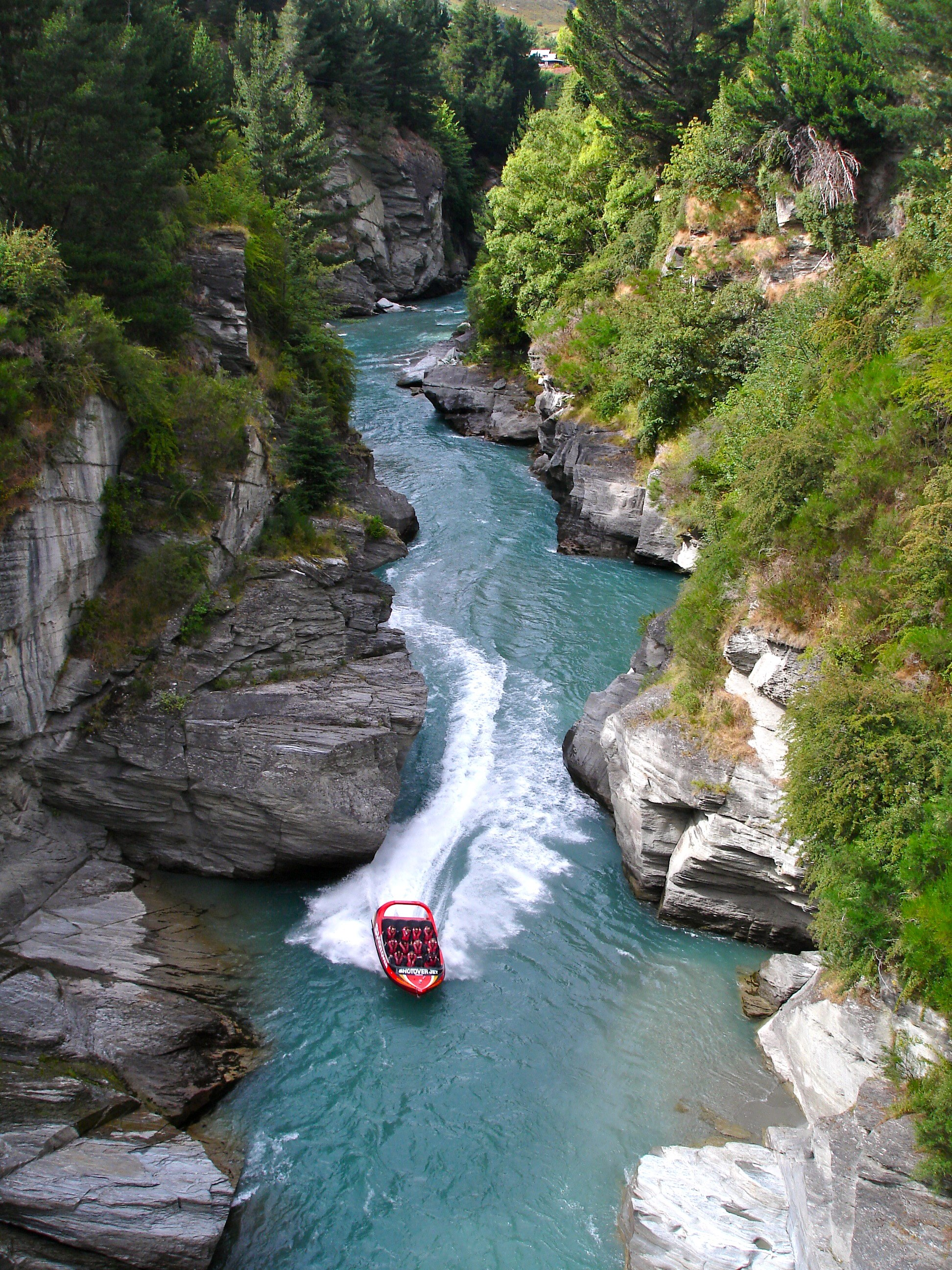 Shotover Jet is the only company permitted to operate in the spectacular Shotover River Canyons. It's a thrilling ride - skimming past rocky outcrops at close range in your Shotover Jet 'Big Red', as you twist and turn through the narrow canyons at breath taking speeds. View On Black